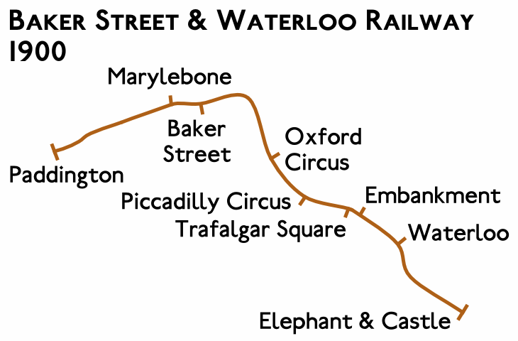 Geographic Map of the Baker Street & Waterloo Railway, 1900.